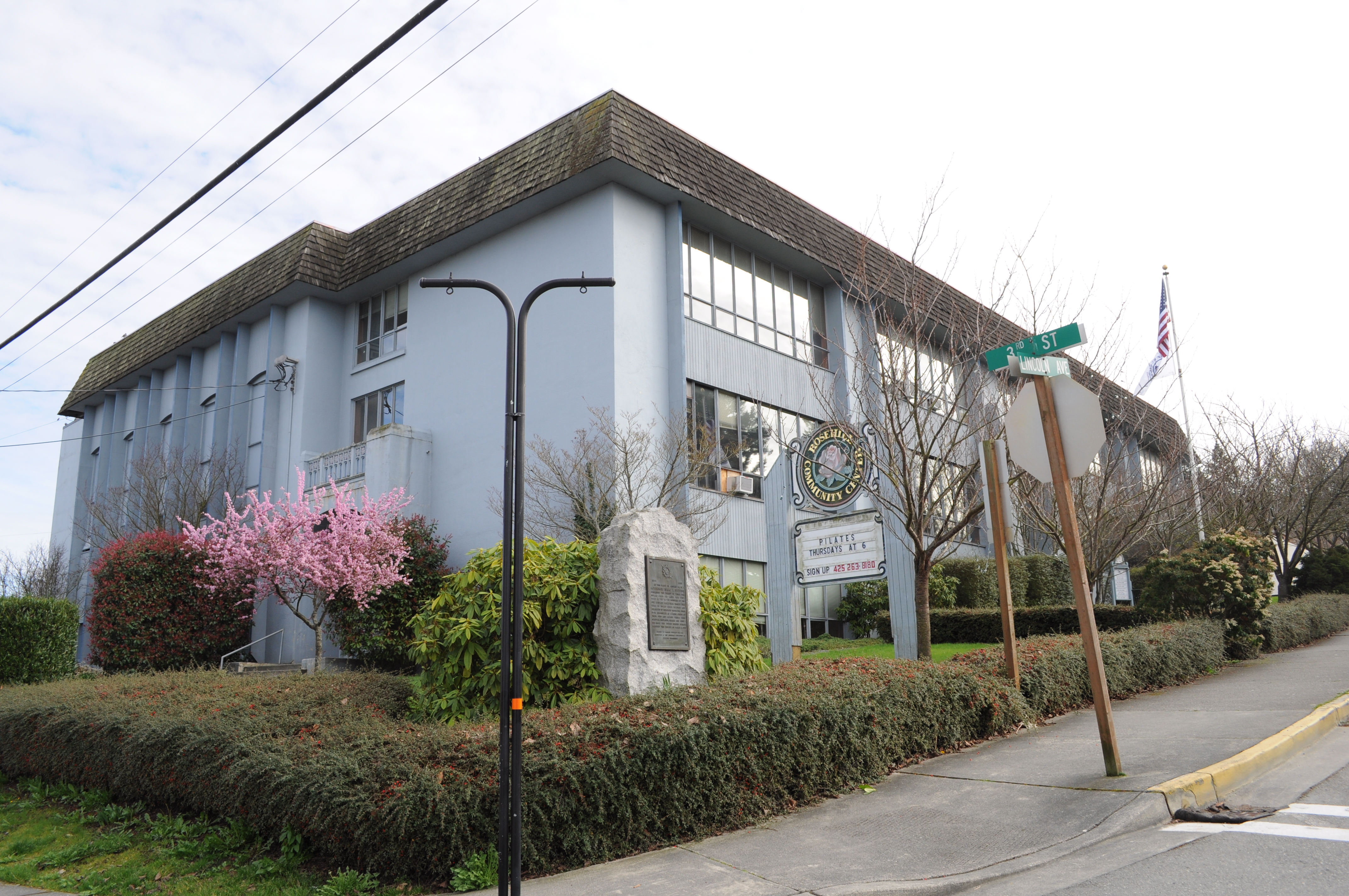 Rosehill Community Center, the former Rosehill School, Lincoln Ave. and 3rd St., Mukilteo, Washington. The small Point Elliott Treaty monument in the foreground is listed on the National Register of Historic Places.